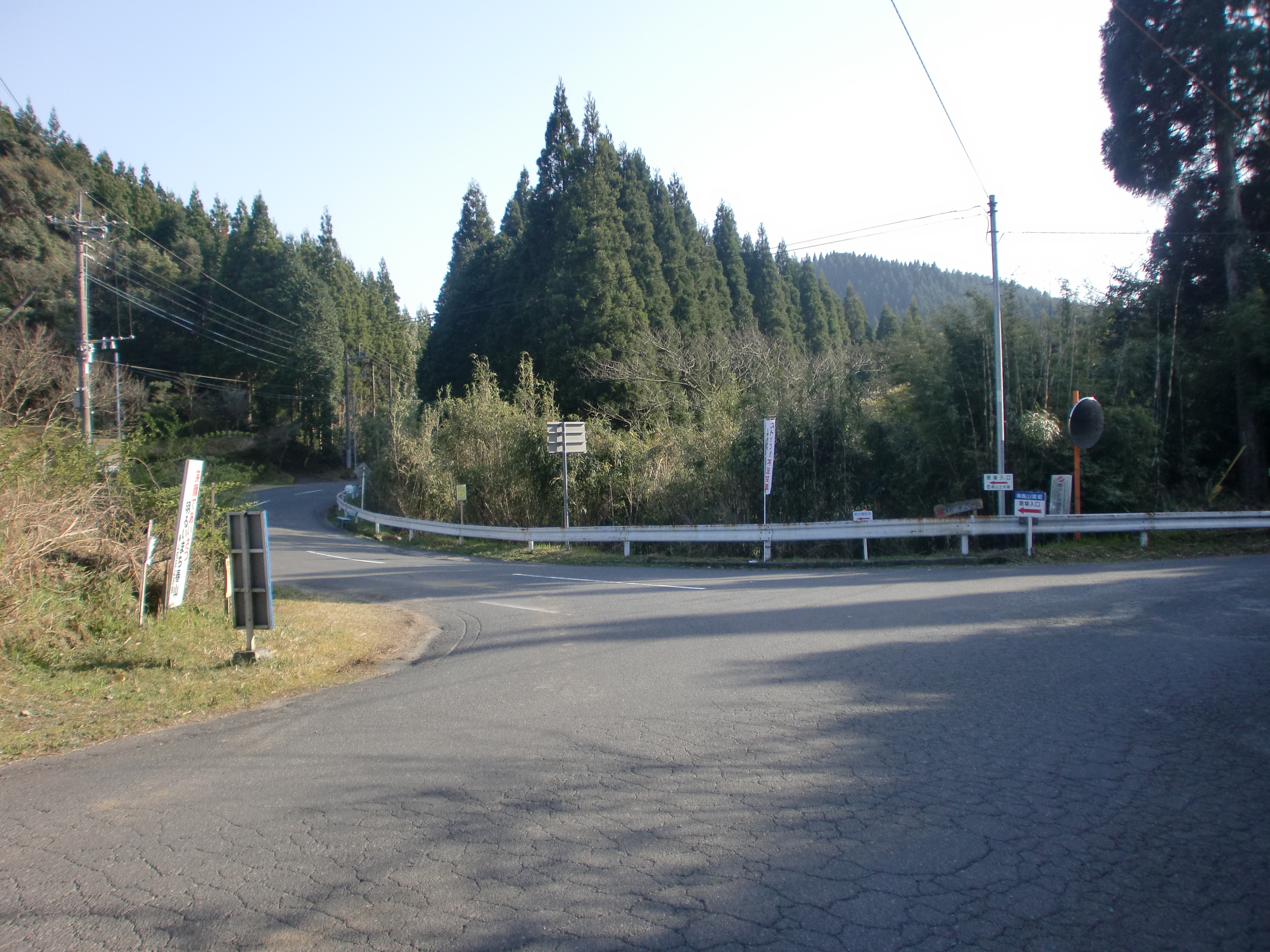 Intersection of the Kagoshima Prefectural Road Routes 291 (left and bottom) and 296 (right) in Hiratacho, Kagoshima City